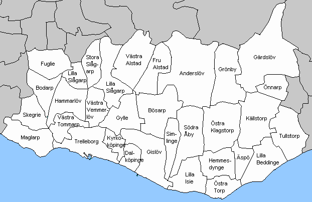 socken in Trelleborg